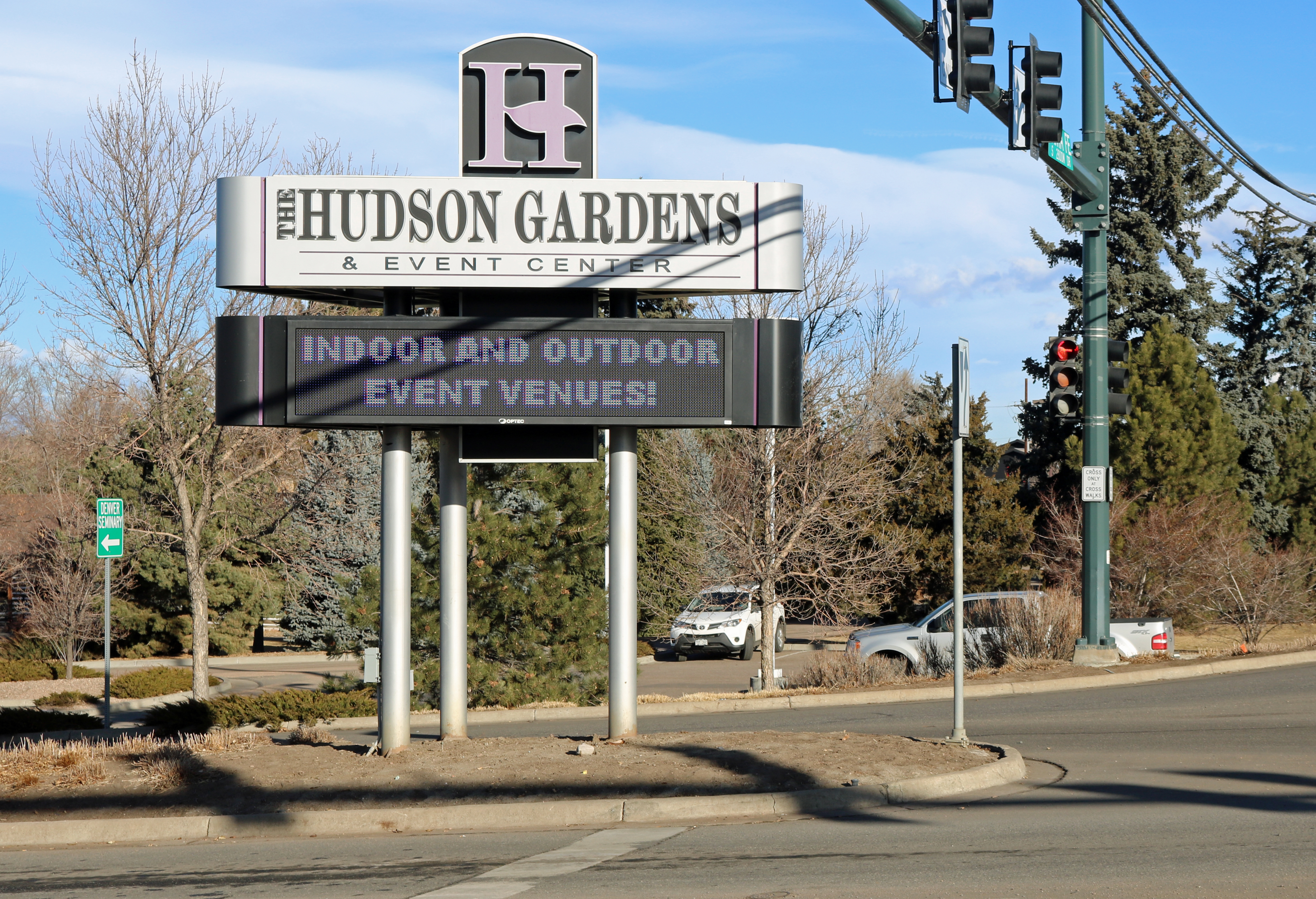 The entrance to Hudson Gardens in Littleton, Colorado. The sign is at the intersection of South Santa Fe Drive and South Vinewood Street. The address of Hudson Gardens is 6115 South Santa Fe Drive, Littleton, Colorado.